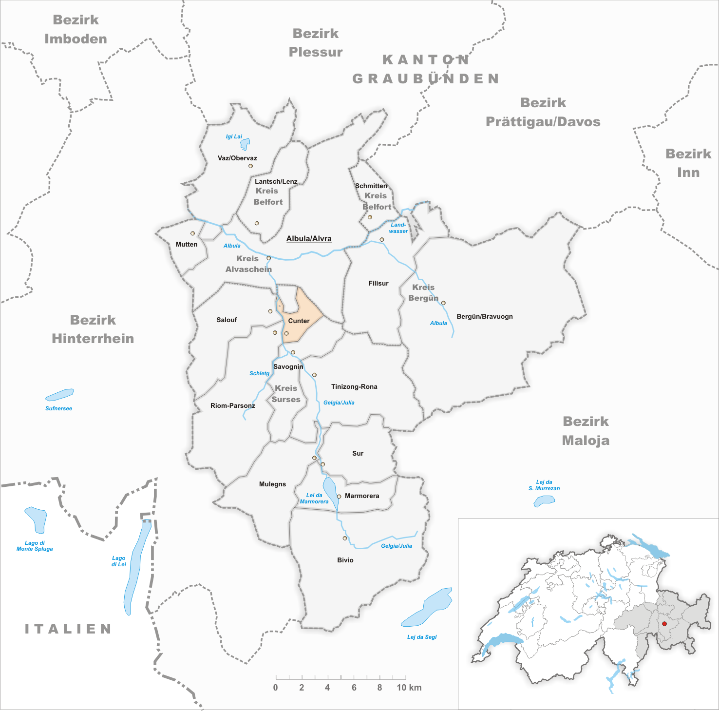 Municipality Cunter